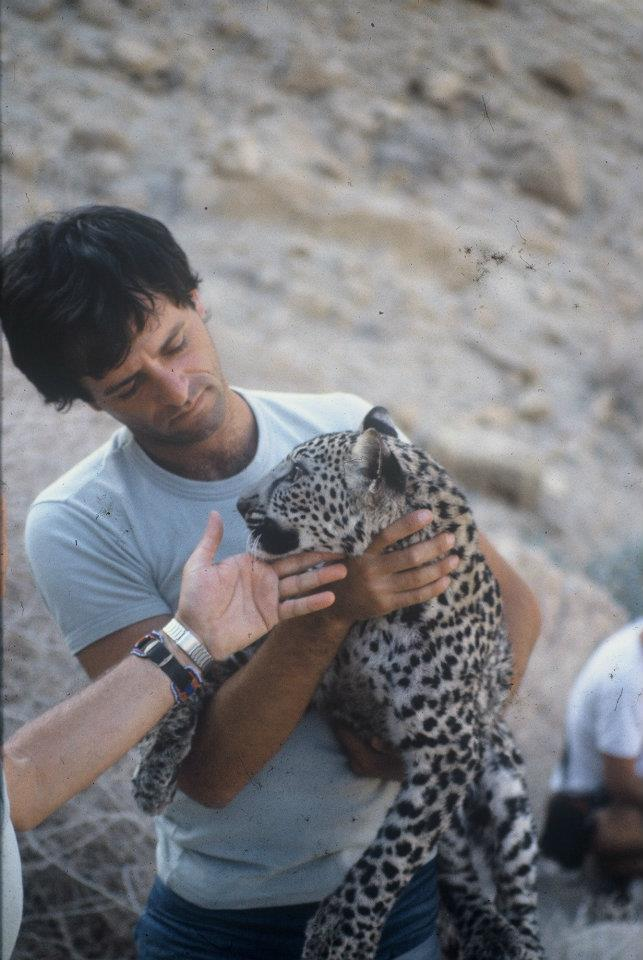 Leopard in the Judean desert photographed by